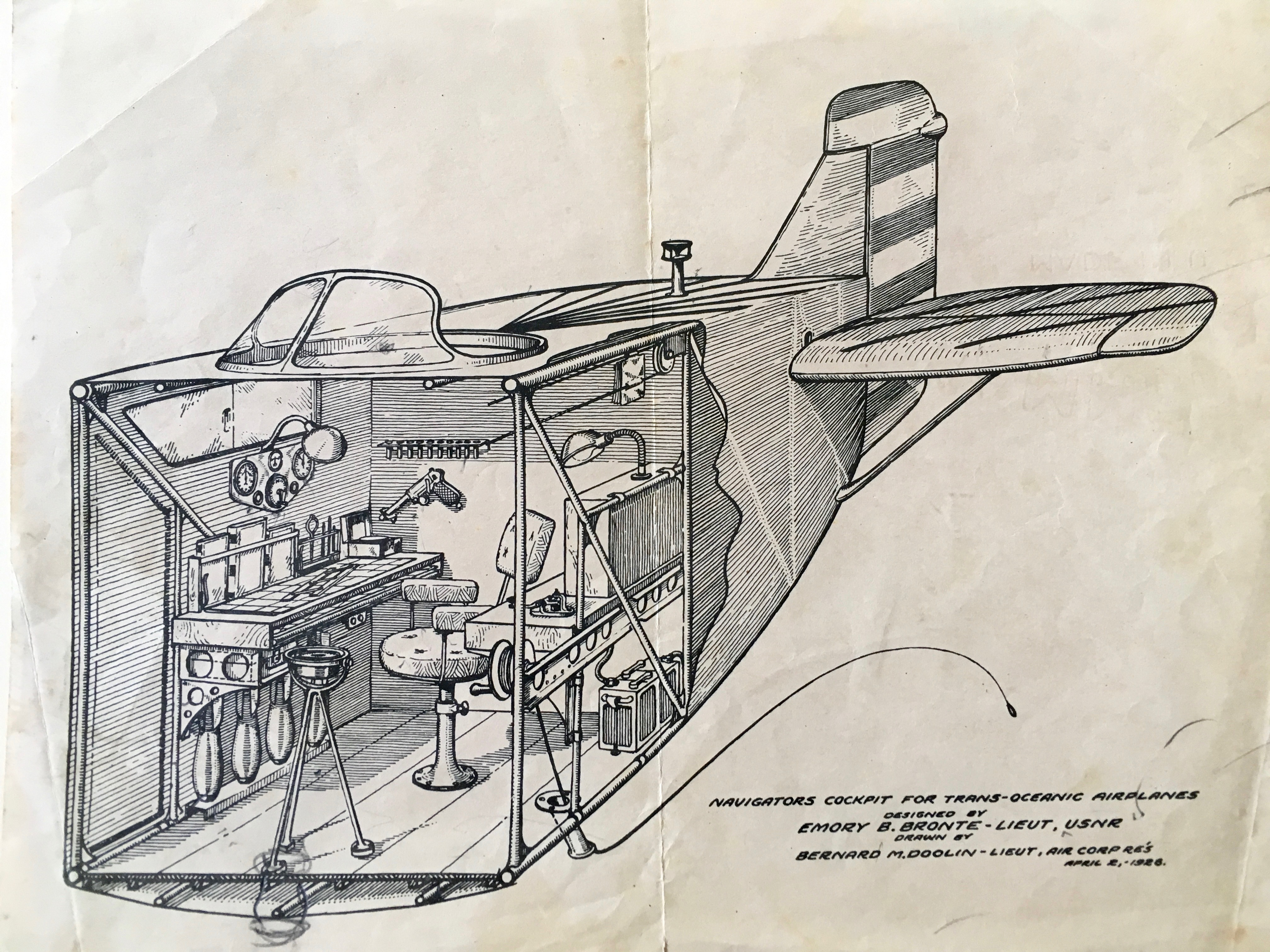 Navigators Cockpit for Trans-Oceanic Airplanes